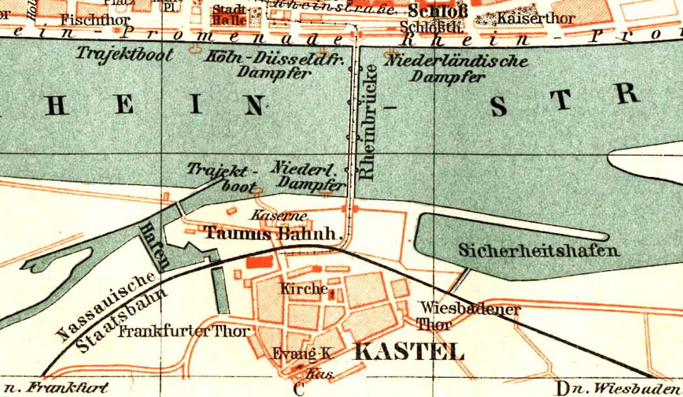 Mainz city map, 1893, showing the Rhine bridge and Kastel district across the river.